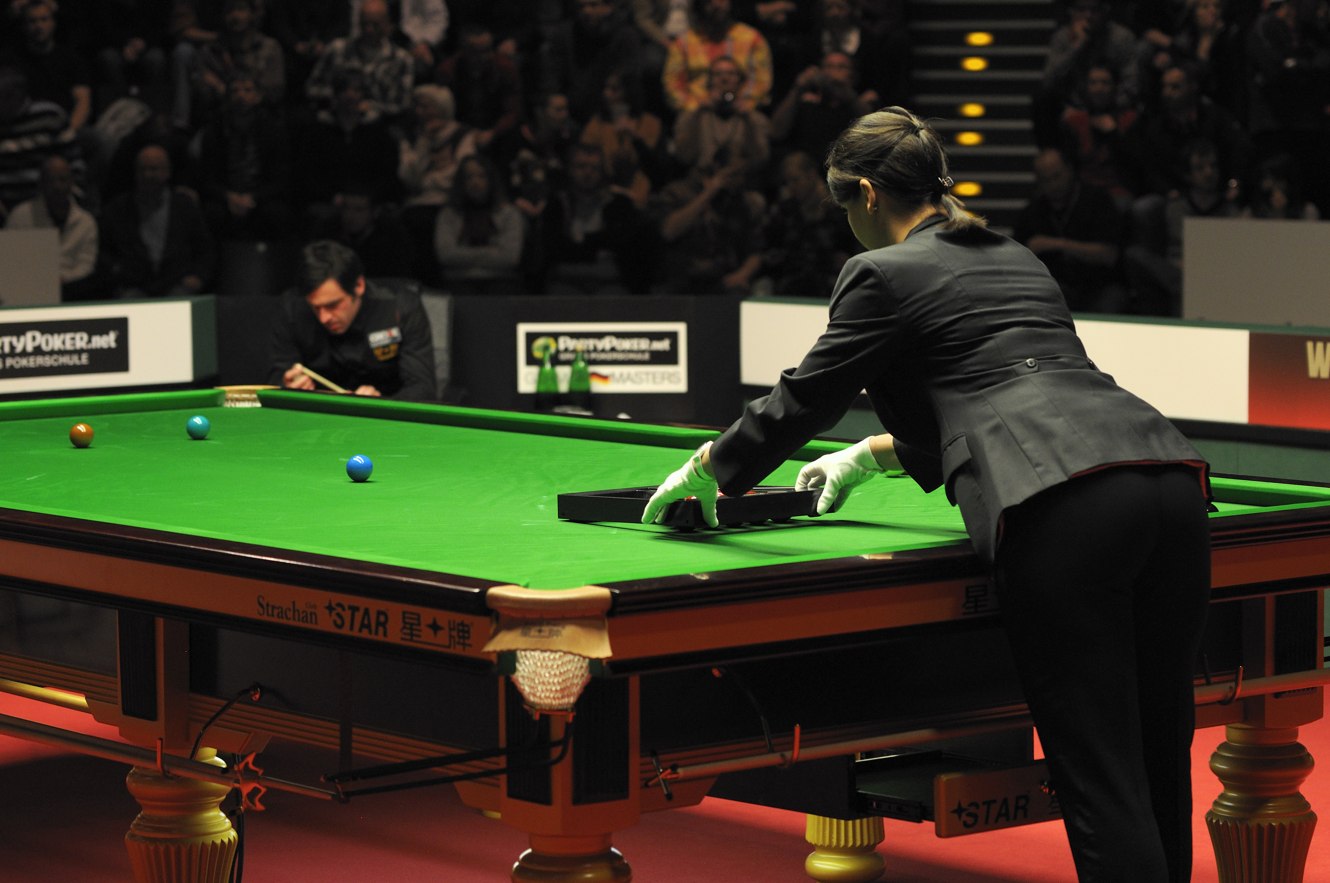 Picture taken in Berlin during the Snooker German Masters in 2011. Michaela Tabb.